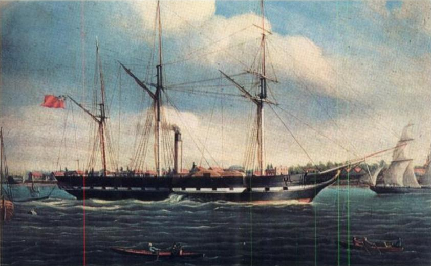 An image of a painting of the SS Royal William. The painting is described as being from 1834. It is reasonable to expect the author of this original to have been deceased for 100 years as of the time of this upload.